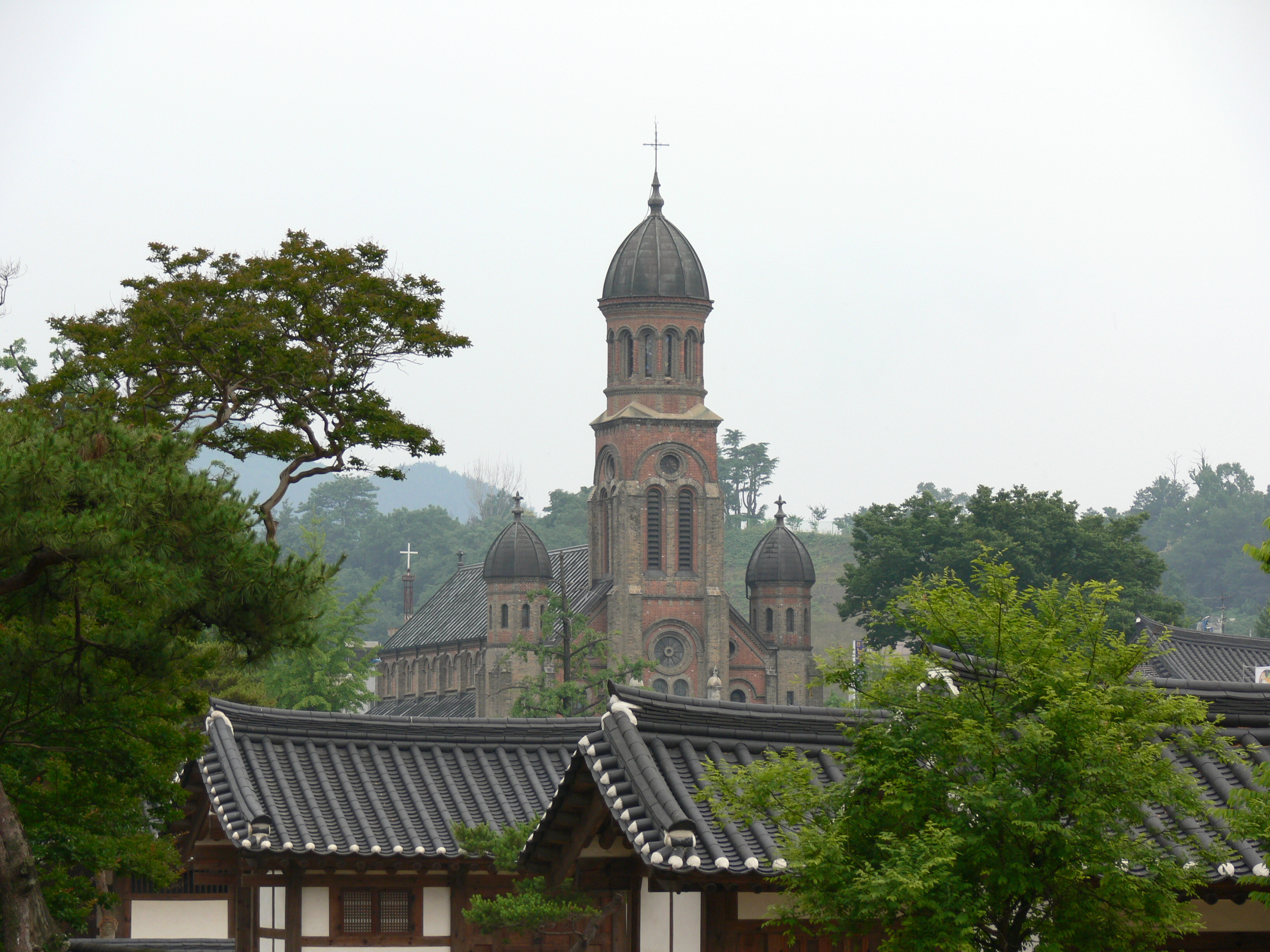 I am the author of this file. This original is at